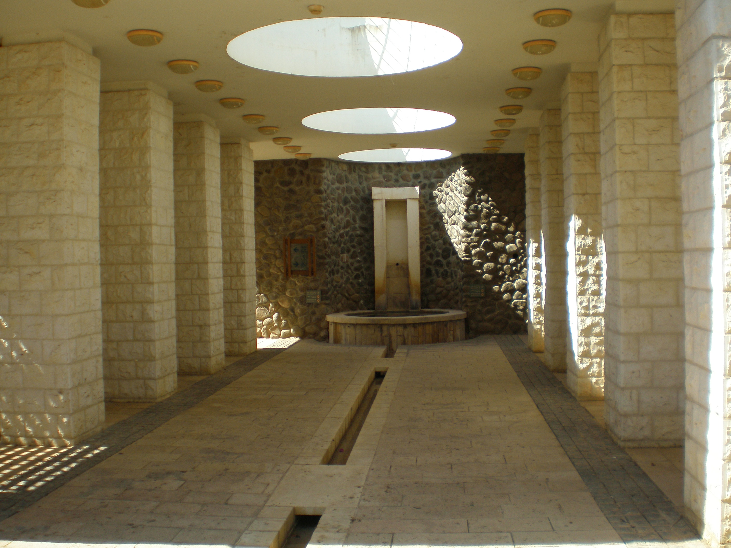 Fountain in Capernaum Israeli national park.